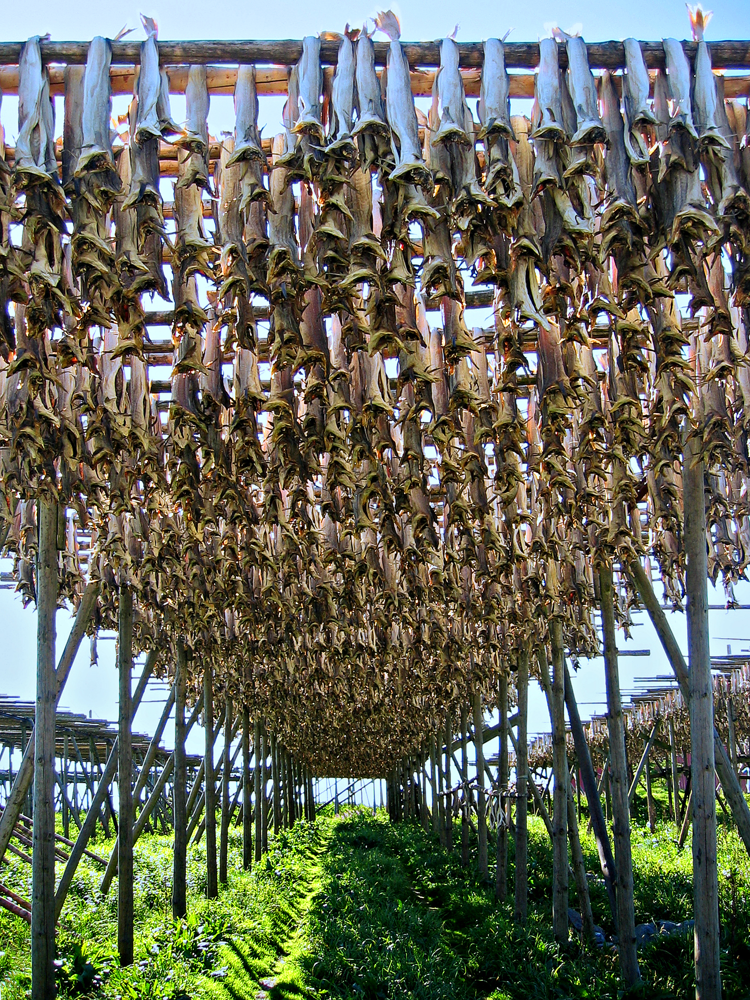 Lofoten Islands Stockfish is one of the oldest of Lofoten`s fish products. Good quality stockfish demands correct weather and temperature conditions. Nature provides optimum conditions at exactly the same time that the Winter and Spring Cod arrive at the spawning grounds. This has made the region famous for top grade stockfish all over the world. Italy is the most important market for high-quality stockfish from Lofoten.